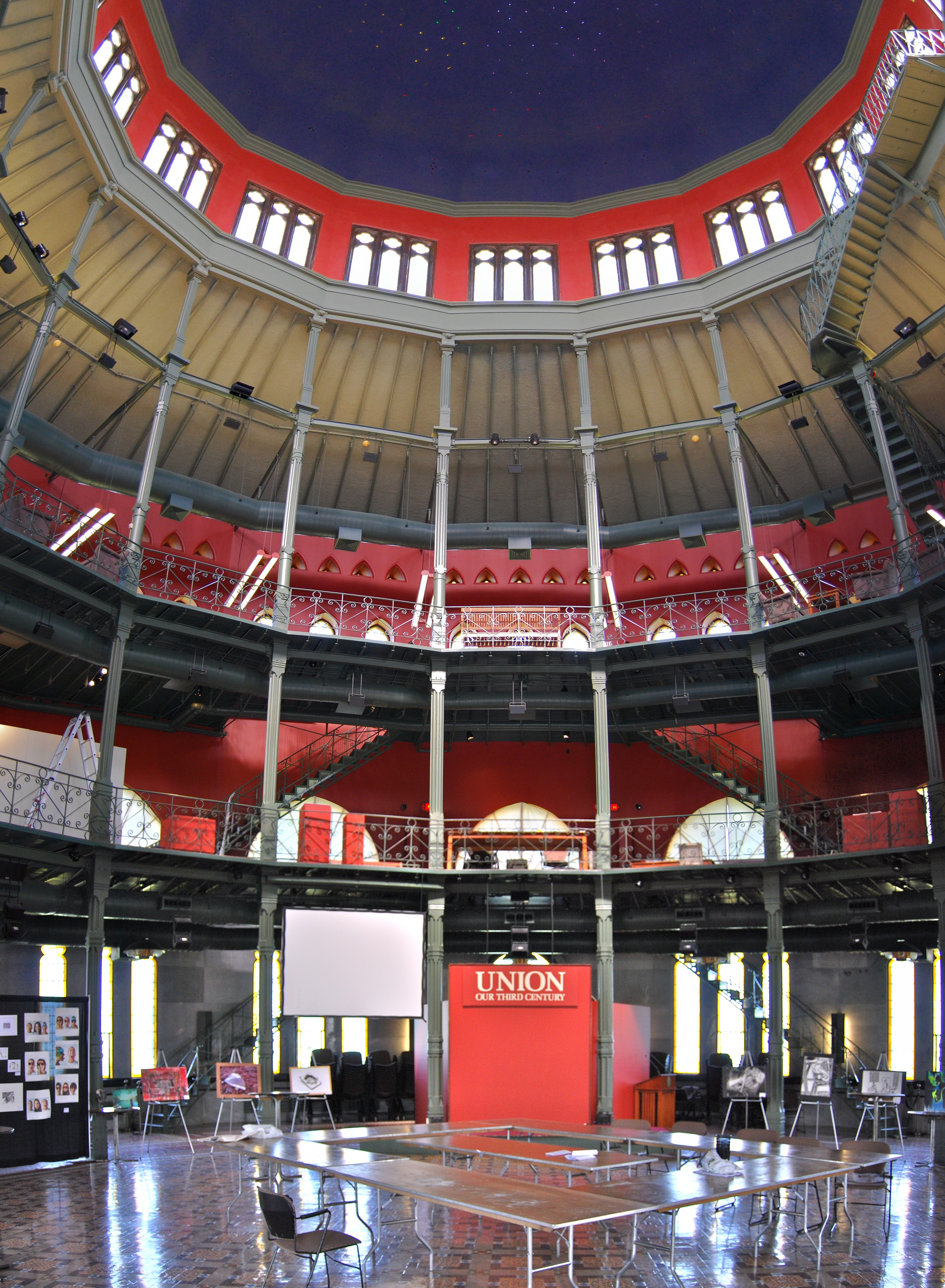 Interior of the Nott Memorial on the campus of Union College in Schenectady, New York, United States